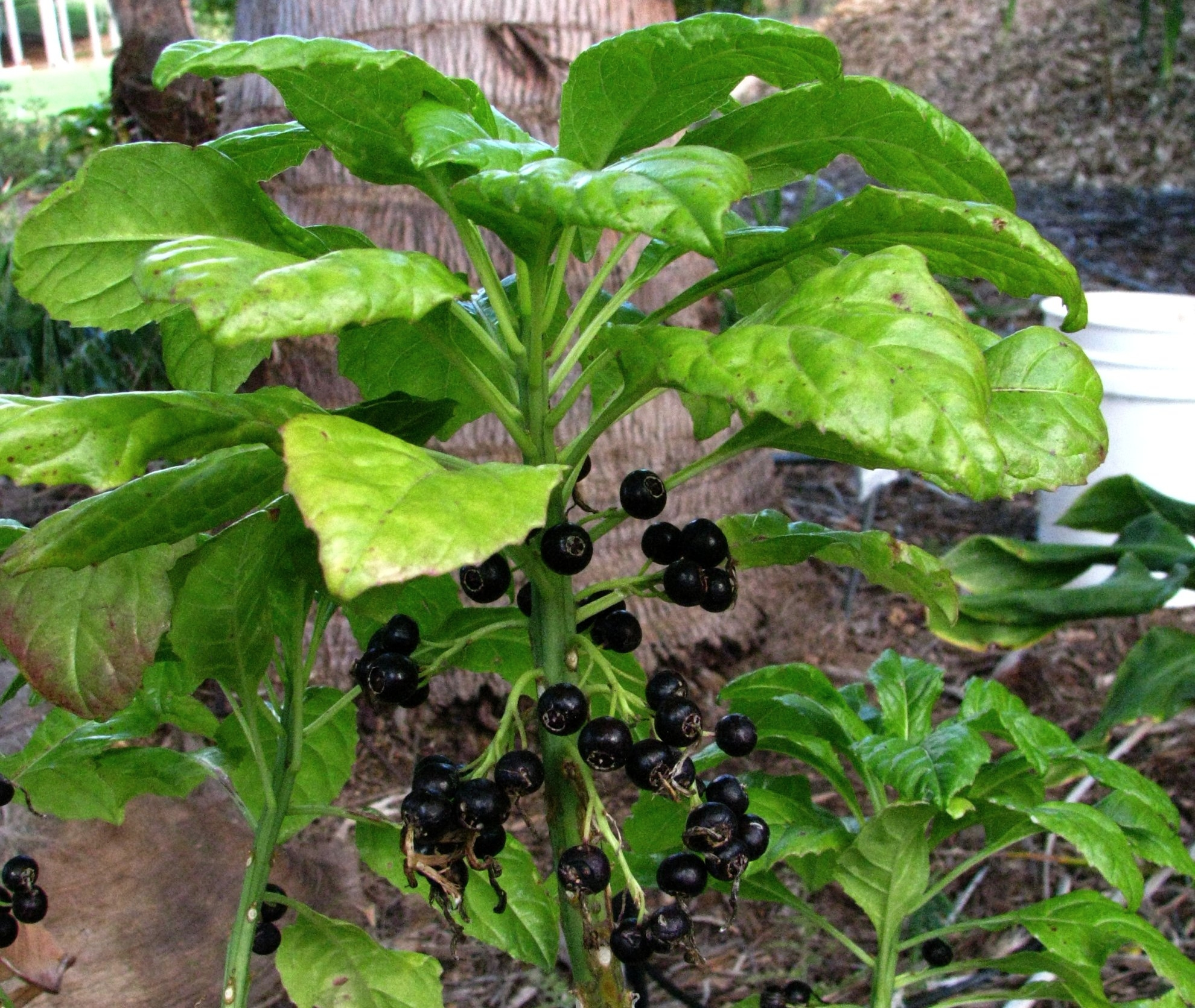 Kauaʻi delissea Campanulaceae Endemic to the Hawaiian Islands (Kauaʻi only) Endangered Oʻahu (Cultivated) Planted in the ground. Fruits are edible, but mealy.